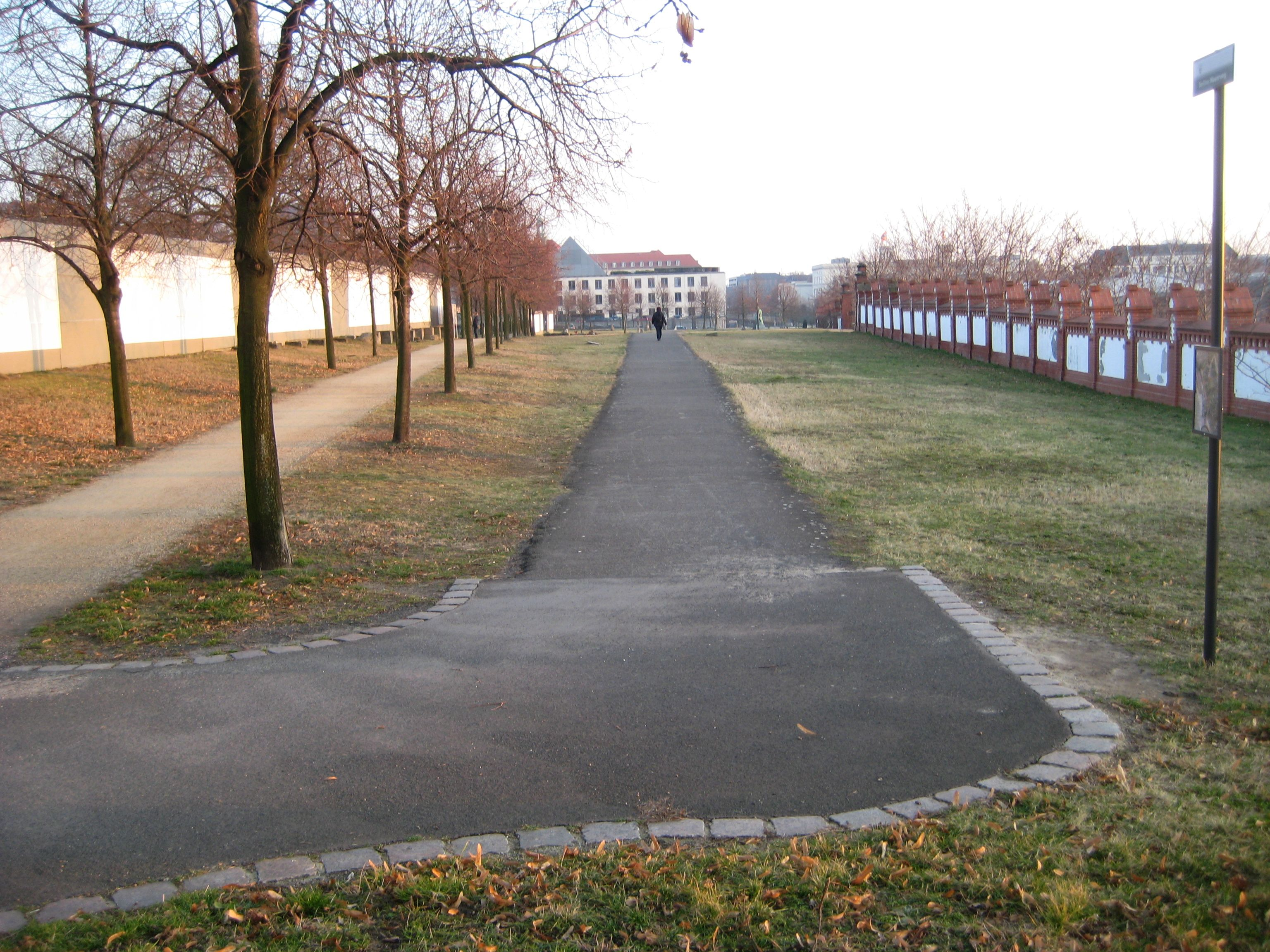 Invalidenfriedhof cemetery in Berlin (western part), former site of the East Berlin border with sign marking the Berlin Wall Path ("Berliner Mauerweg")